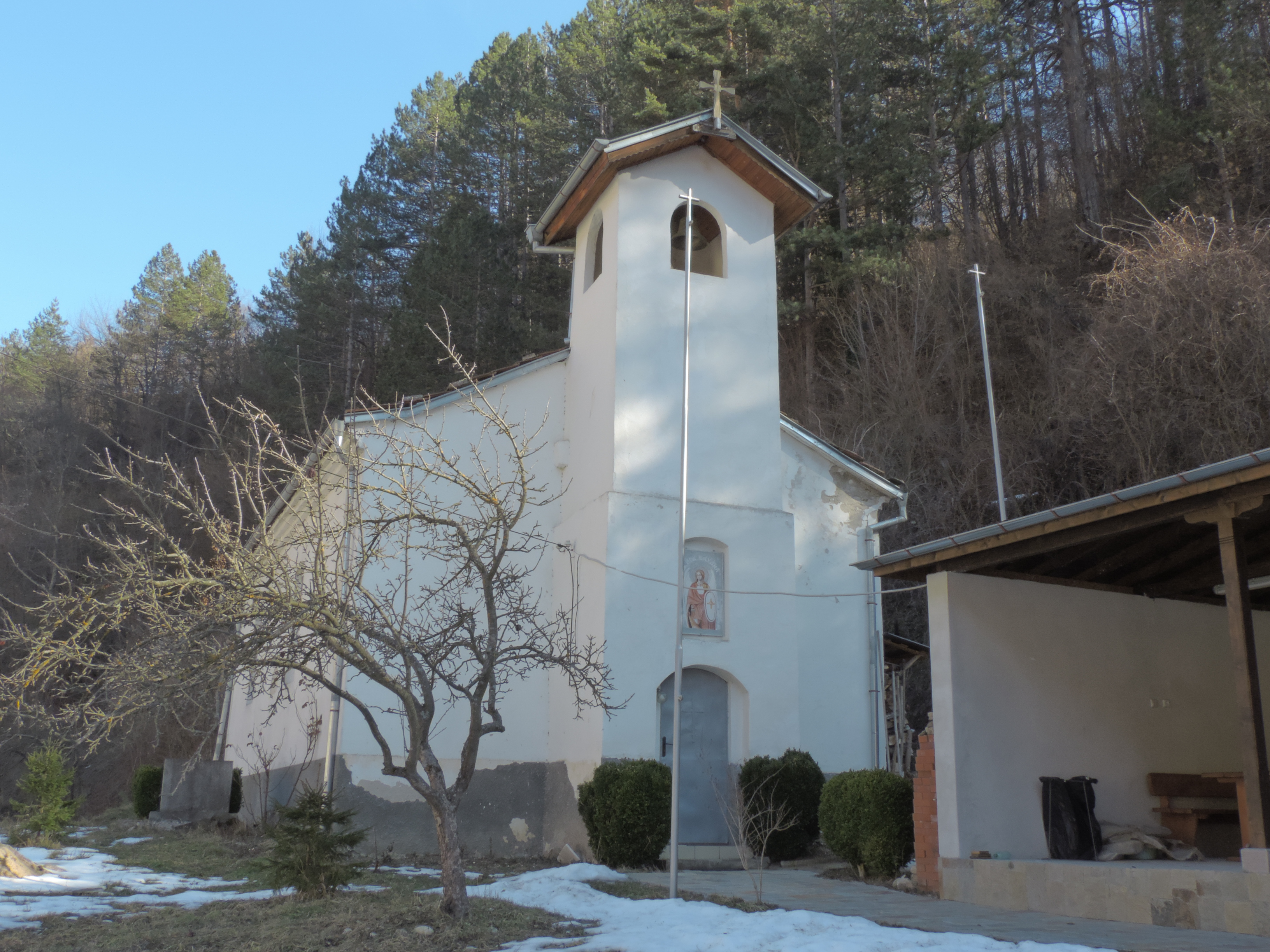 Village Mihalkovo, Devin Municipality, Smolyan Province, Bulgaria. St Archangel Michael Church.